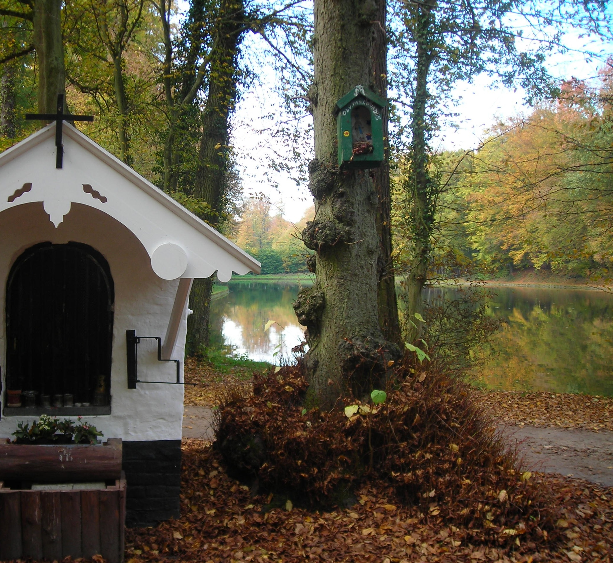 Chapel in Forest of Soignes near John of Ruysbroeck monastery at Groenendaal